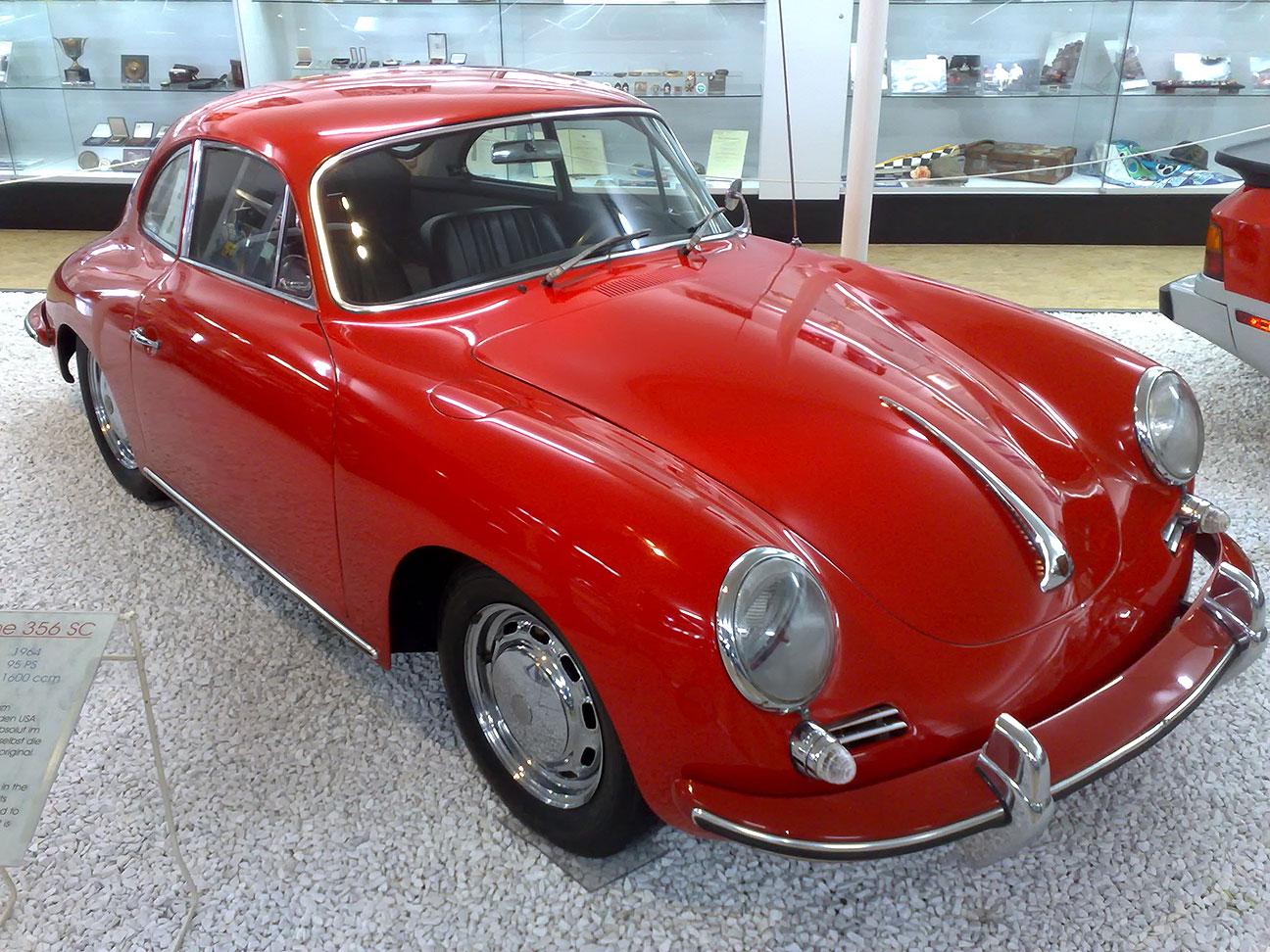 Porsche 356 SC at Auto- und Technikmuseum Sinsheim